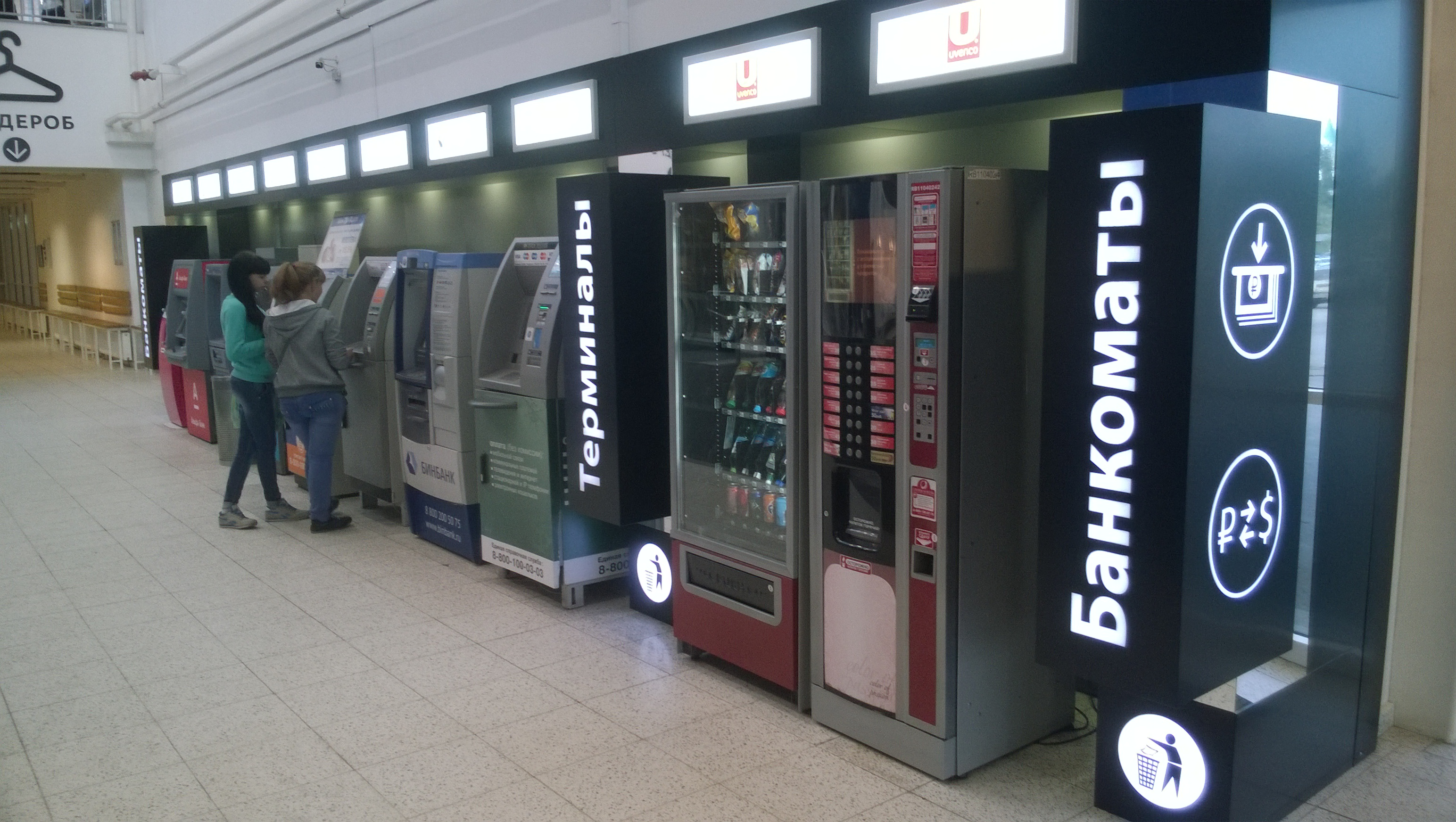 Automatic teller machines in 'Mega' (Novosibirsk family shopping center).